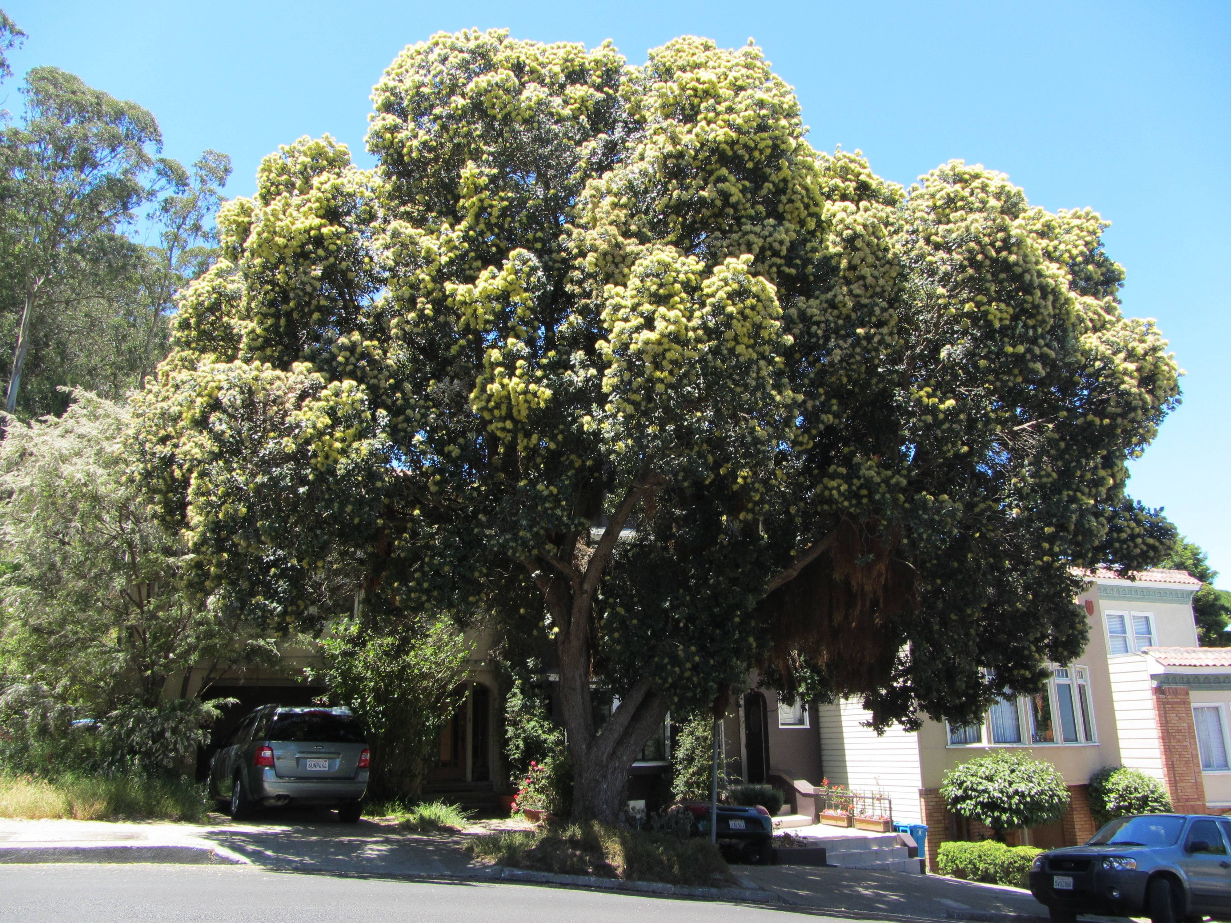 This rare yellow-flowered Pōhutukawa is considered a "landmark tree" by the city of San Francisco. It was planted by Victor Reiter, founder of the California Horticultural Society, circa 1930s. I was told that it's one of only three such trees in California. Metrosideros excelsa 'Aurea' originates from the Bay of Plenty region of Aotearoa New Zealand. This photo taken on Stanyan Street near the western end of 17th Street.